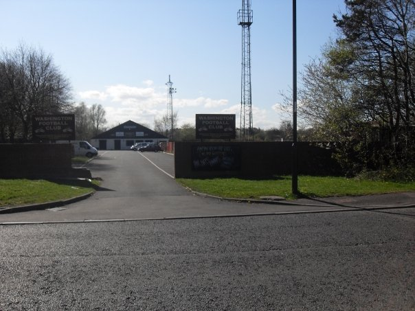 washy footy club